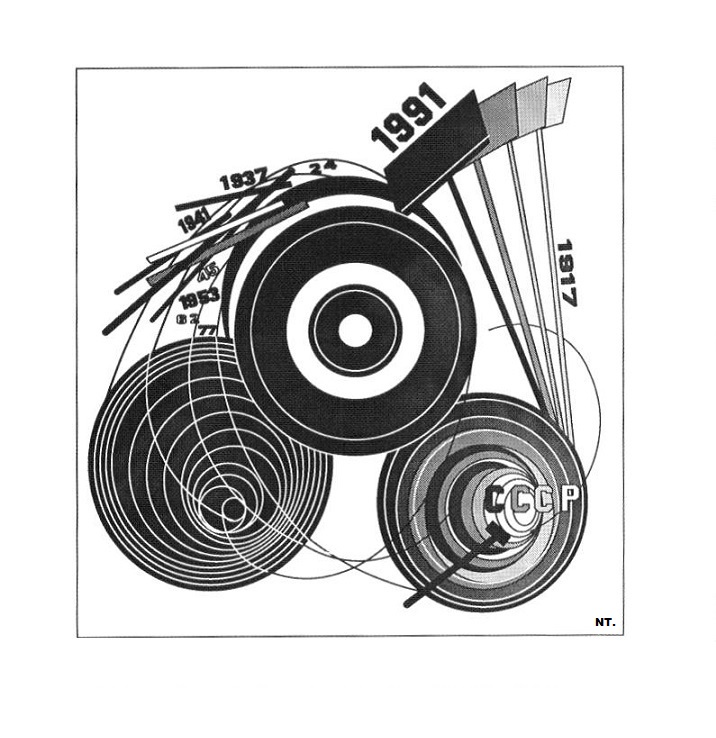 This computer graphics drawing was created by Natalia G. Toreeva in 1992. It was copyrighted by Natalia G. Toreeva in 2015. Registration Number: Vau 1-233-563 as Title of group of Work "Art Work (Computer Graphics) of 2015 and before".Toreeva (talk) 12:16, 12 April 2016 (UTC) Author of this computer graphics drawing: Natalia G. Toreeva; Date of creation: 1992; Source: Author; Author: Natalia G. Toreeva.Toreeva (talk) 17:53, 13 April 2016 (UTC) Effective Date of Copyright Registration: October 23, 2015.Toreeva (talk) 17:57, 13 April 2016 (UTC) Toreeva (talk) 19:57, 13 April 2016 (UTC) Toreeva (talk) 18:37, 22 April 2016 (UTC)